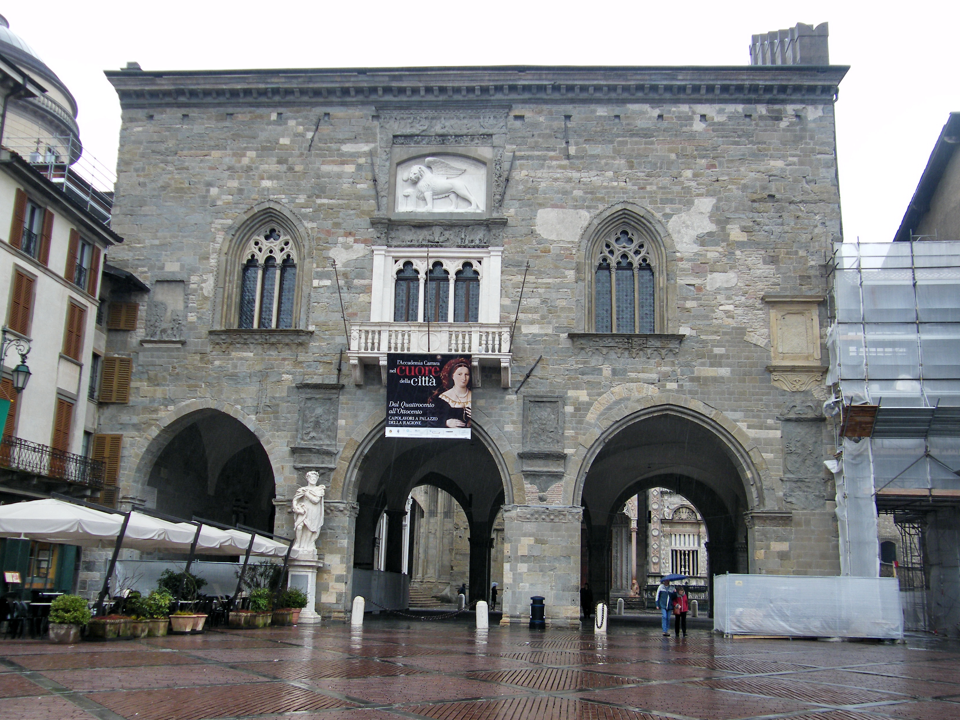 Palazzo della Ragione Bergamo